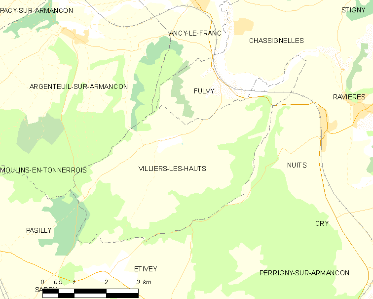 Map of French municipality Villiers-les-Hauts